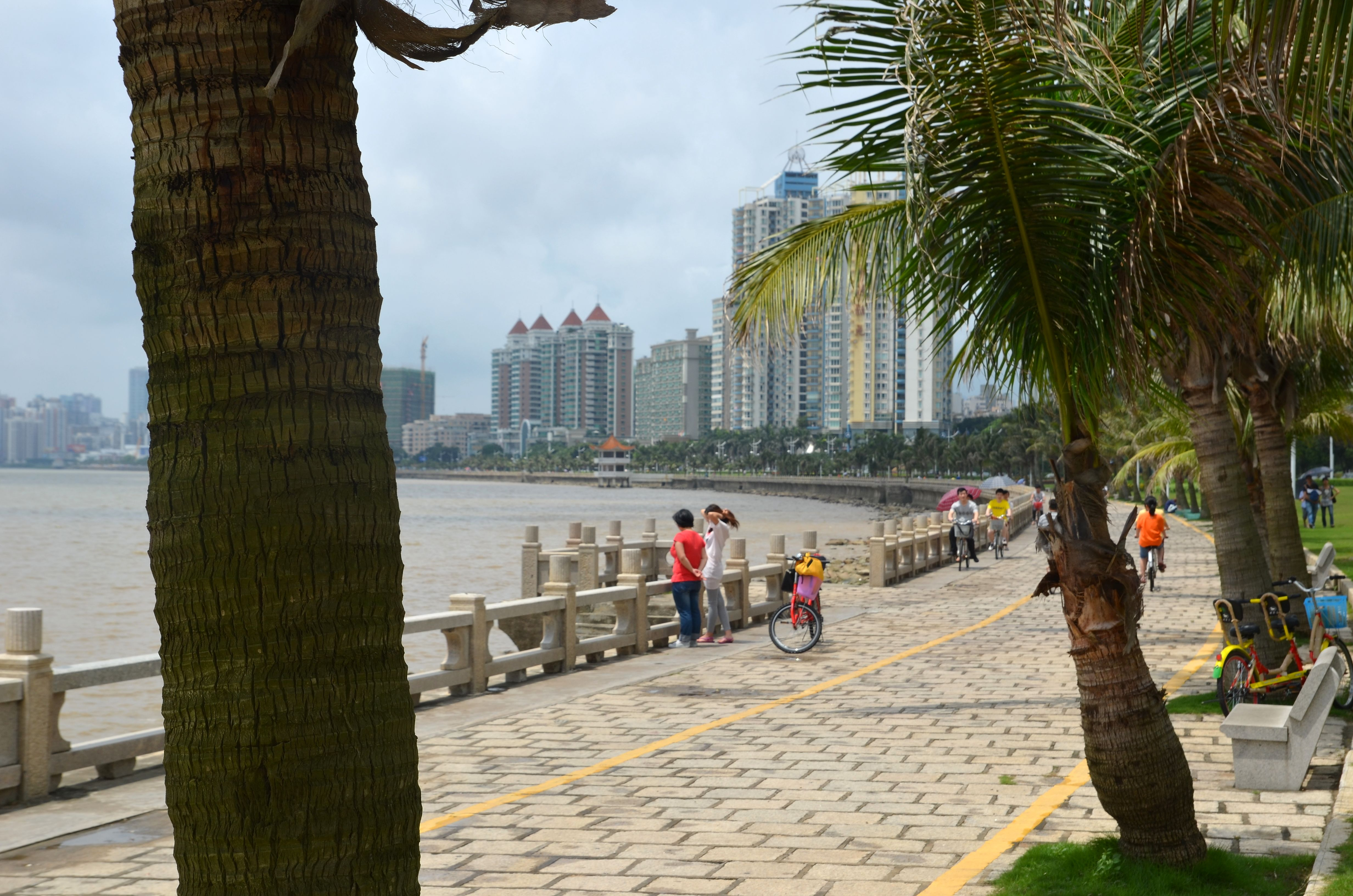 Near the end of the #1 road of the Guangdong Ludao (广东绿道, Guangdong greenway, a 4000 Km cycleway network), at Zhuhai.